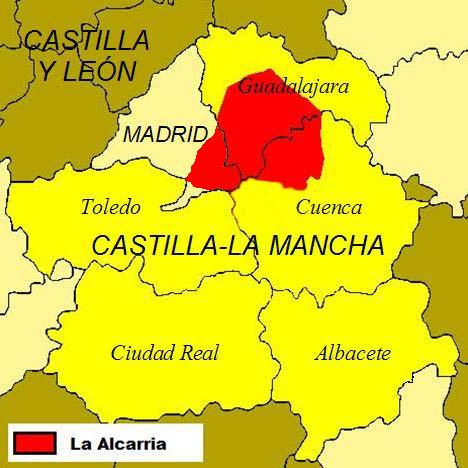 Approximate size of the region of the Alcarria, between the Spanish provinces of Cuenca, Guadalajara and Madrid.